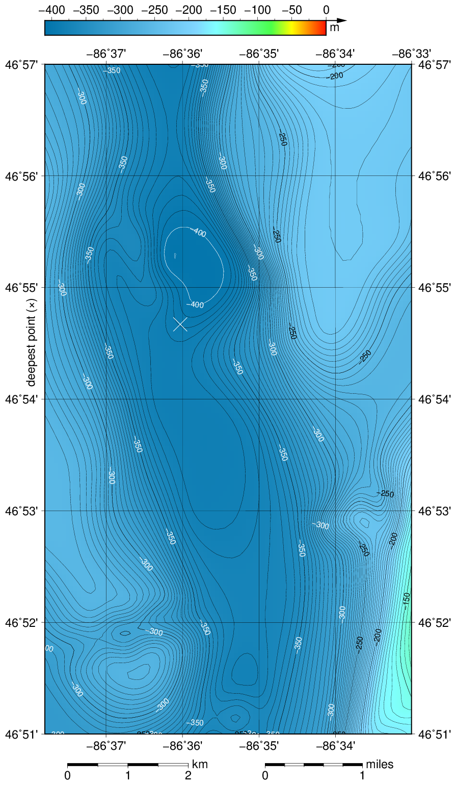 The bathymetric map of Lake Superior portion surrounding the deepest area, contoured with interval 5 m (50 m with thicker lines). The deepest point taken from the GLERL website is marked with "×". It's position differs slightly from the position of the area below -400 m in this bathymetric map based on data cited below. According to NGDC information, Lake Superior data are incomplete. The map was created using the Generic Mapping Tools, GMT, version 5.1.1.